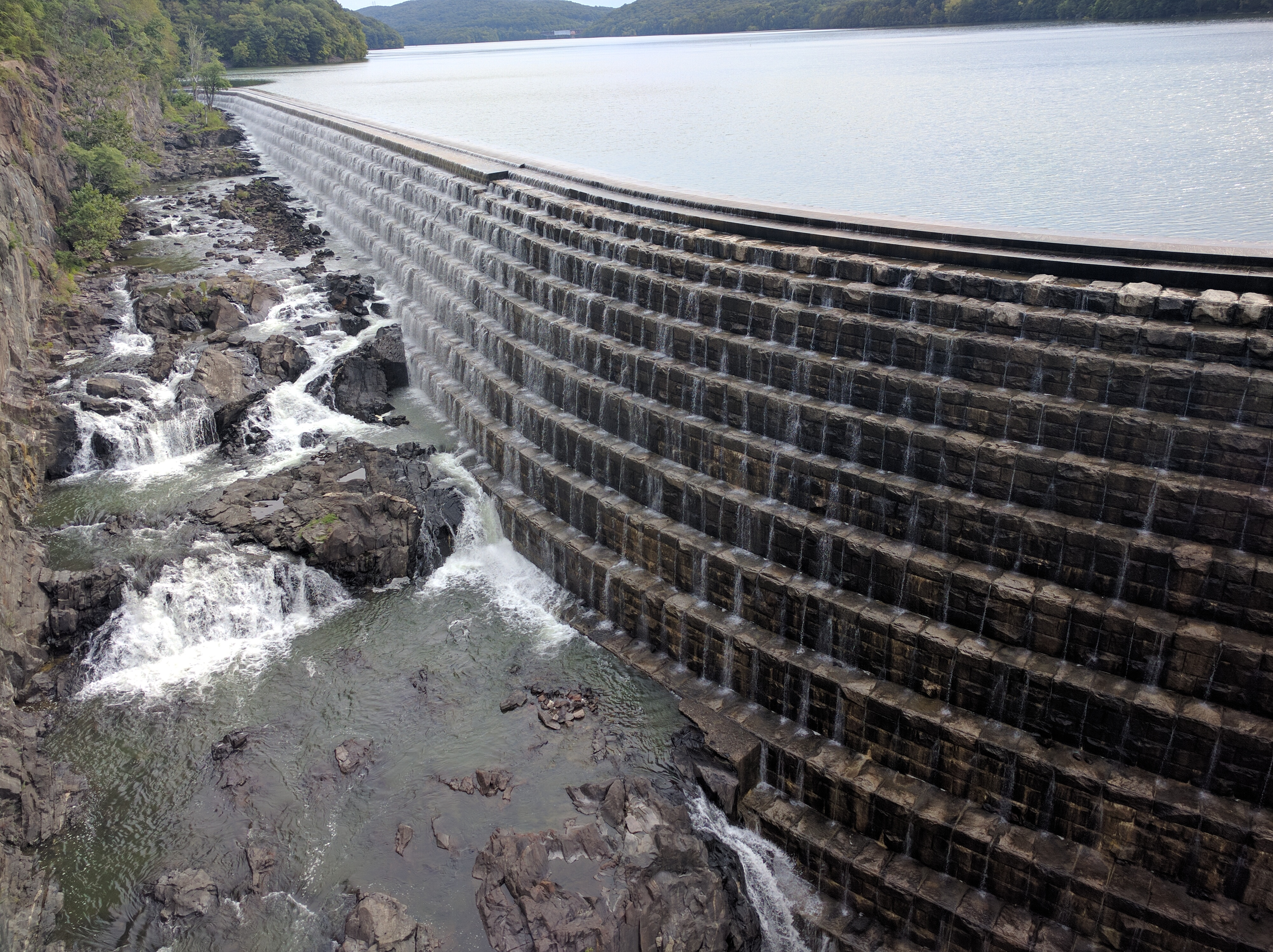 Croton Gorge - view from the dam